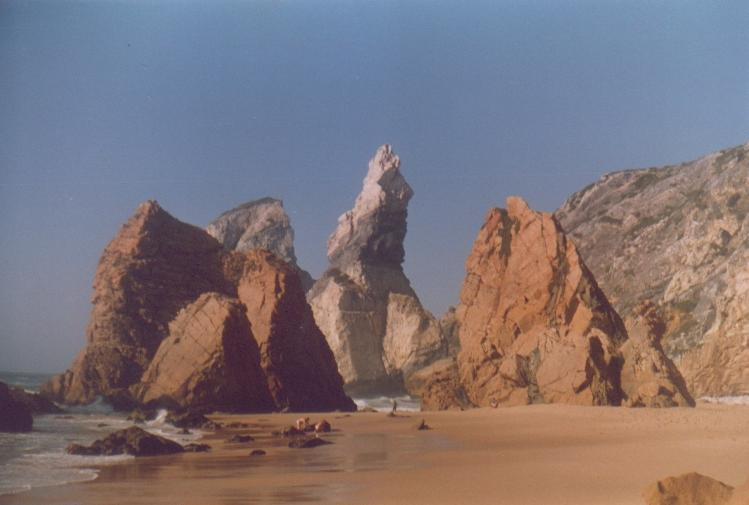 Cabo da Roca, Portugal